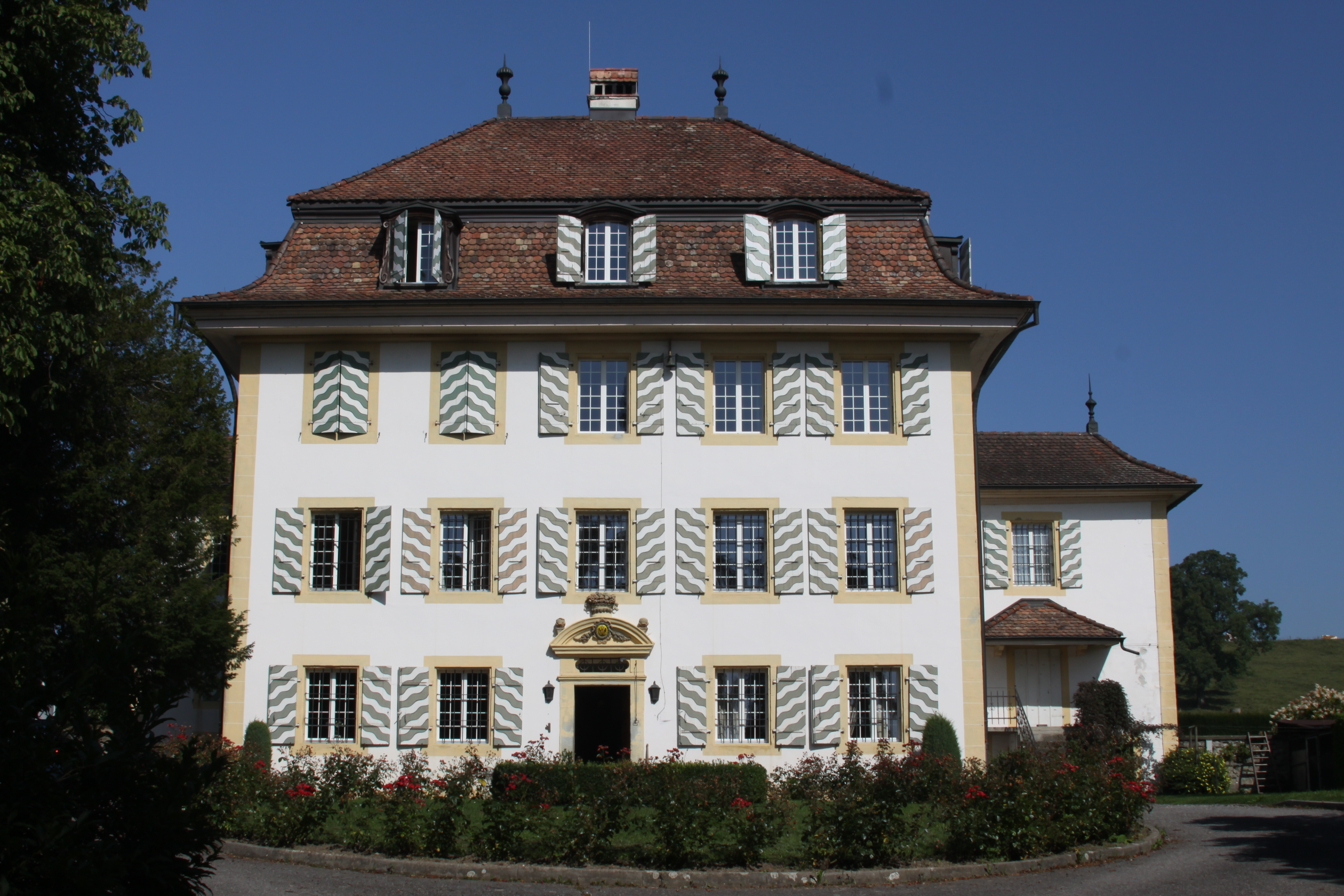 Castle de Diesbach, Au Château 4, Torny-le-Grand